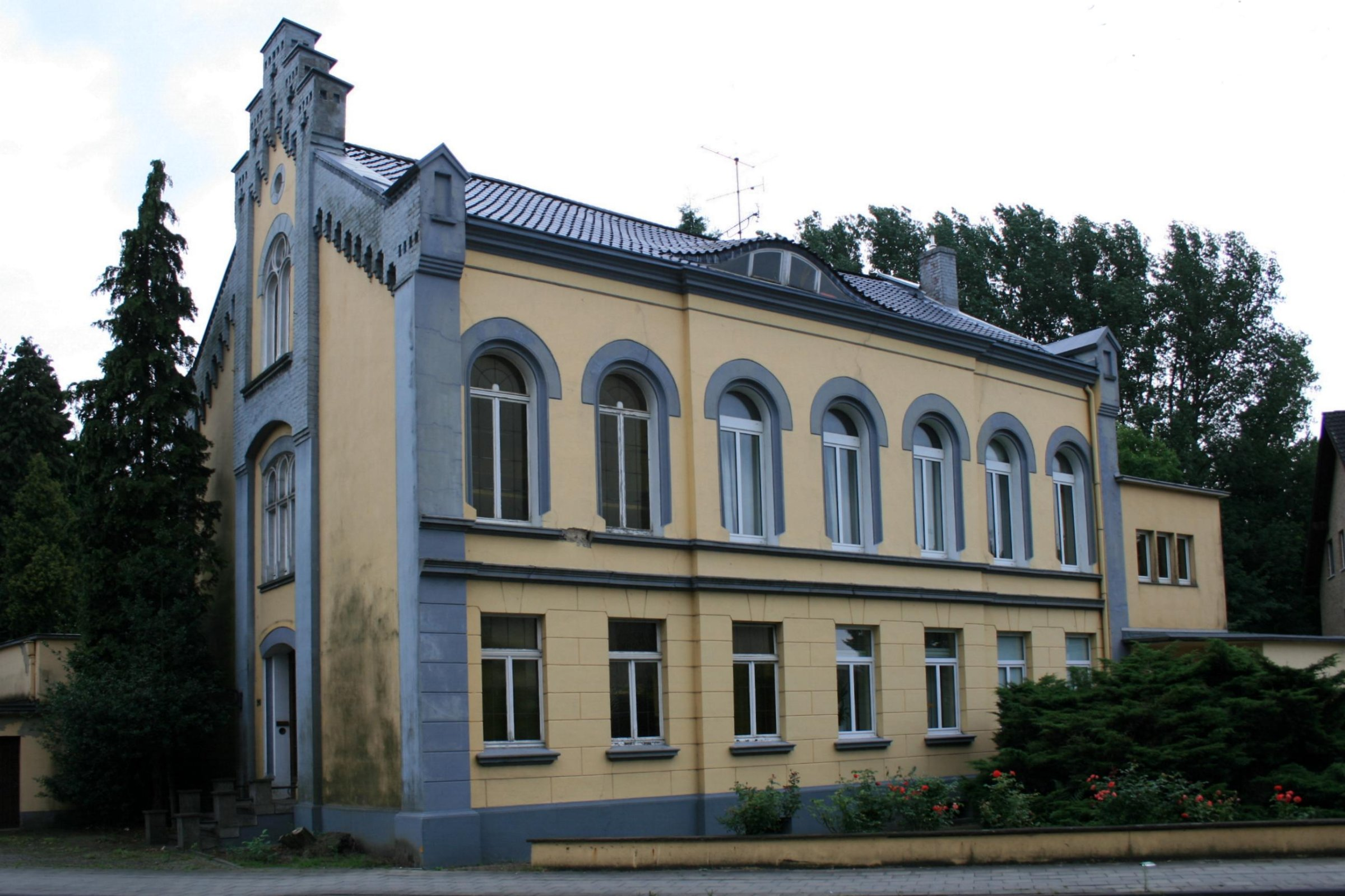 Cultural heritage monument No. F 024 in Mönchengladbach